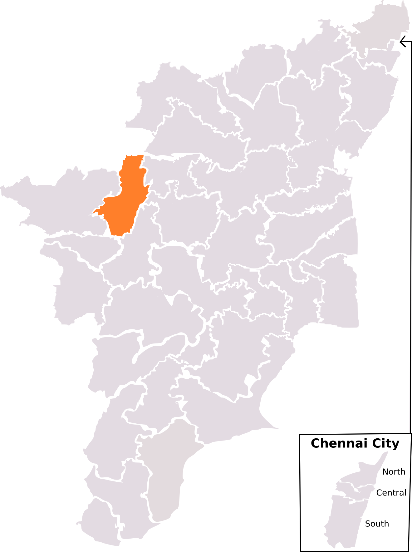 Lok Sabha Election map labeling each constituency for individual pages for Tamil Nadu after delimitation starting 2009 election. Map is based on ECI drawn map from